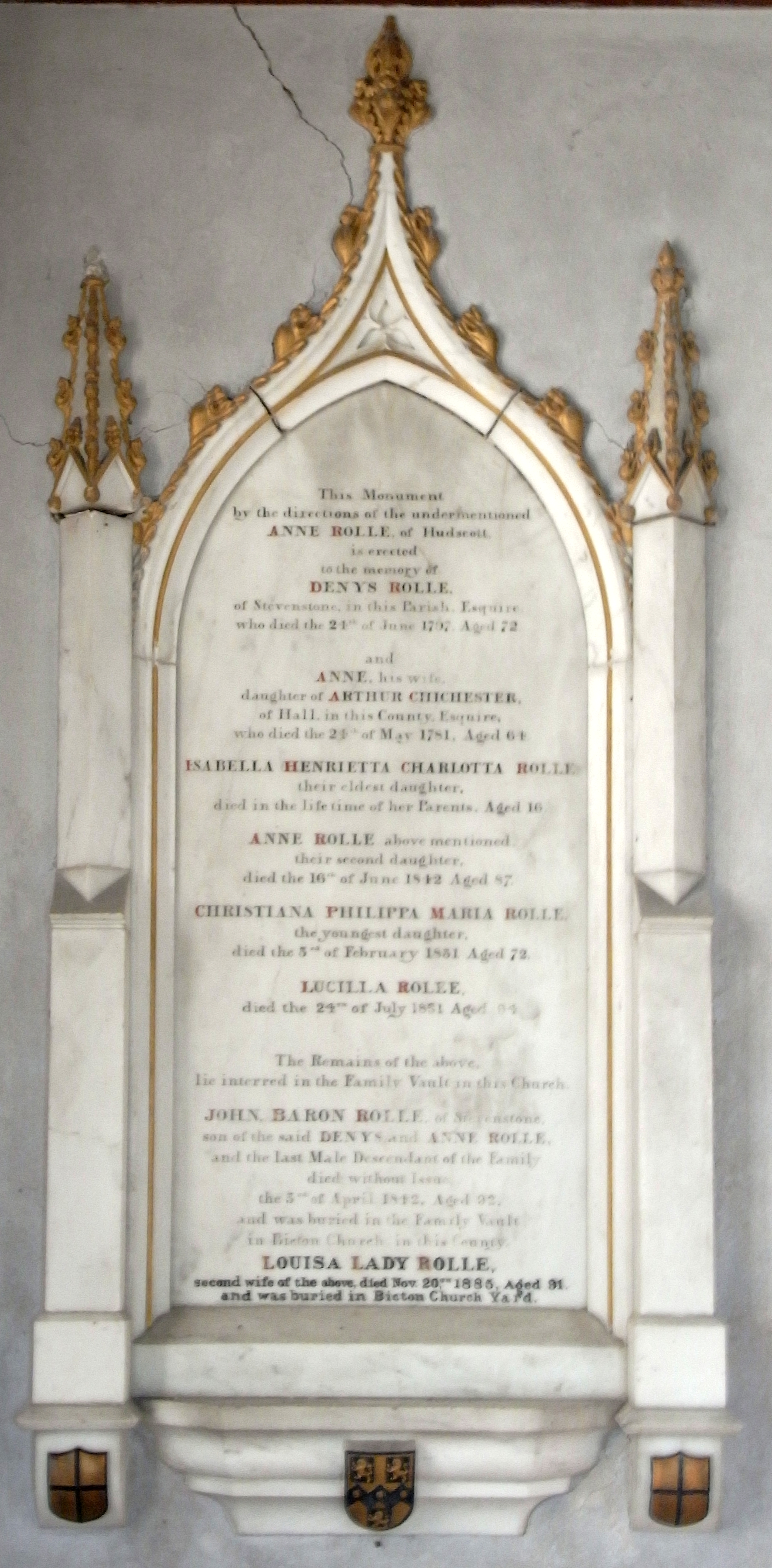 Rolle family mural monument in Church of St Giles, St Giles in the Wood, Devon. Erected by Anne Rolle (1755-1842) of Hudscott House, Chittlehampton, sister of Baron Rolle (d.1842) The text of the monument is as follows: "This monument by the directions of the undermentioned ANNE ROLLE of Hudscott is erected in the memory of DENYS ROLLE of Stevenstone in this parish, Esquire who died the 24th of June 1797 Aged 72 and ANNE, his wife daughter of ARTHUR CHICHESTER of Hall in this County, Esquire who died the 24th May 1781 Aged 64. ISABELLA HENRIETTA CHARLOTTA ROLLE their eldest daughter died in the lifetime of her parents aged 16. ANNE ROLLE above mentioned, their second daughter, died the 16th of June 1842 Aged 87. CHRISTIANA PHILIPPA MARIA ROLLE the youngest daughter, died the 3rd of February 1831 aged 72. Lucilla ROLLE died the 24th of July 1851 aged 94. The Remains of the above lie interred in the Family Vault in this Church. JOHN, BARON ROLLE, of Stevenstone son of the said DENYS and ANNE ROLLE, and the last male descendant of the family died without issue the 3rd of April 1842, Aged 92, and was buried in the Family Vault in Bicton Church in the County. LOUISA LADY ROLLE, second wife of the above, died Nov 20th 1885, Aged 91, and was buried in Bicton Church Yard".